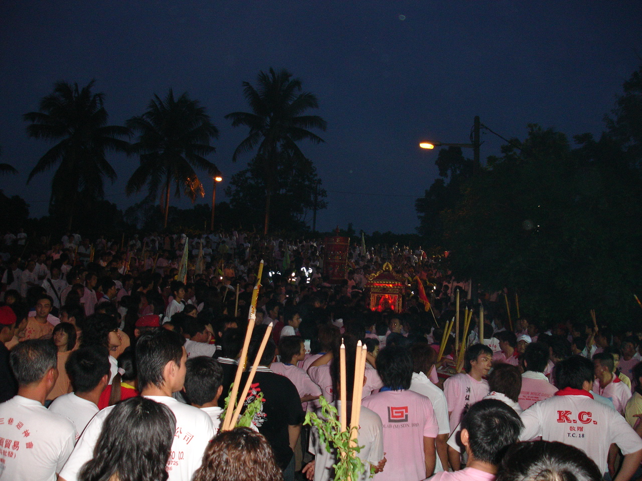 ＤＡＴＥ： １０／３／２００７ ＴＩＴＬＥ： ＣＨＩＮＧＡＹ ２００７ ＴＡＫＥＮ ＢＹ： ＬＩＭ ＴＨＩＡＭ ＰＯＨ